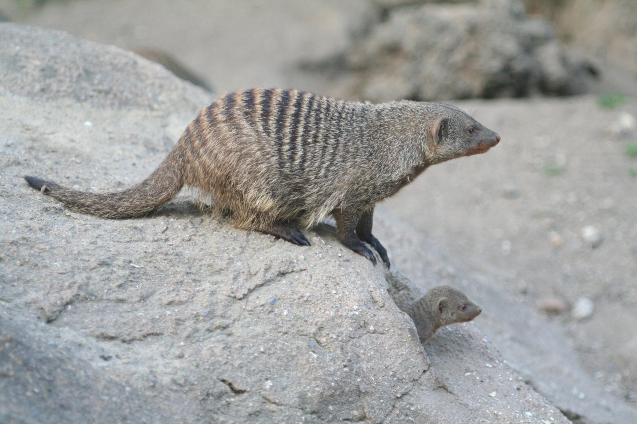 A Banded Mongoose (Mungos mungo) and it's baby at the Copenhagen Zoo.